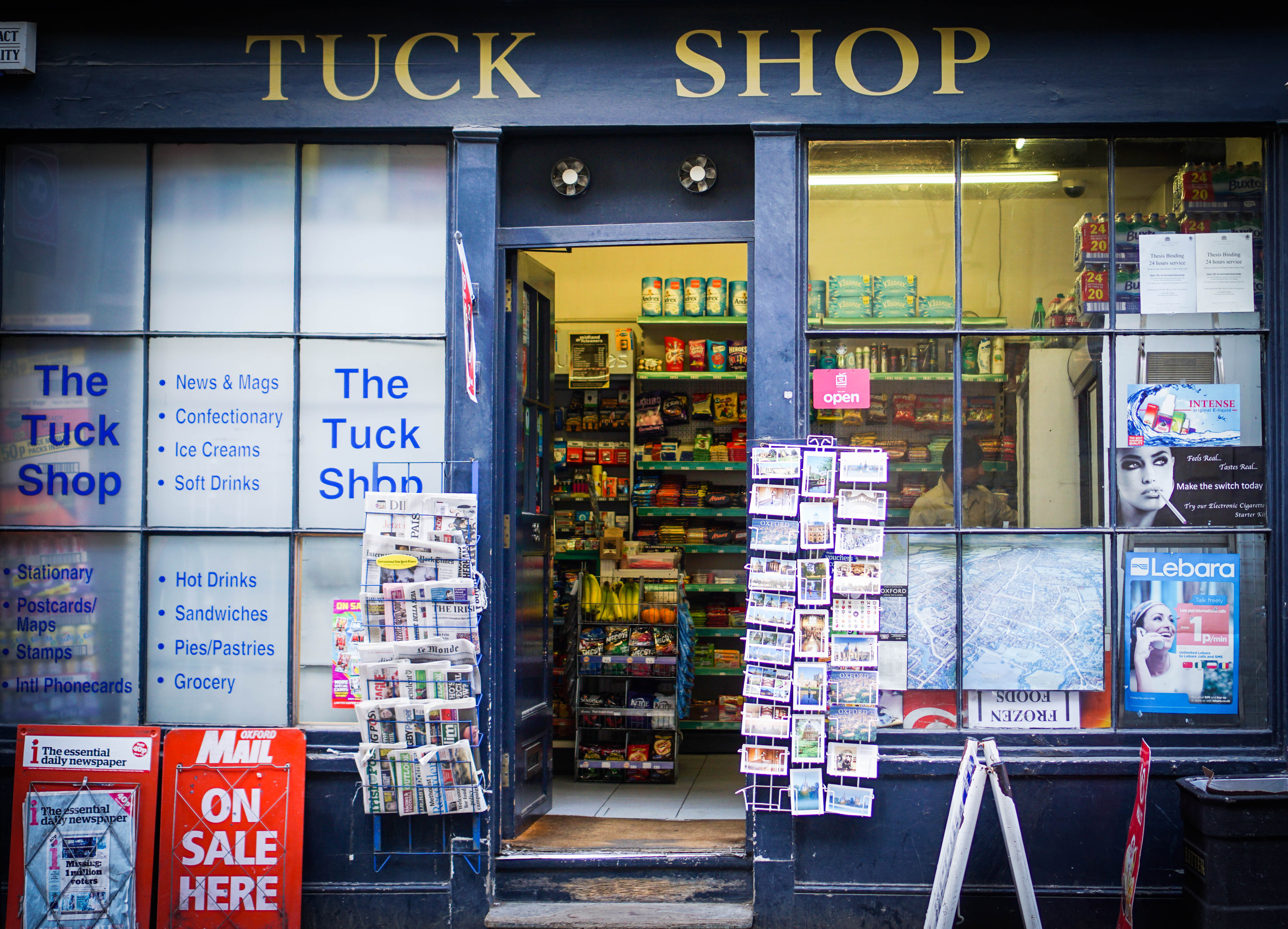 A tuck shop called "Tuck Shop"; Holywell Street, Oxford.